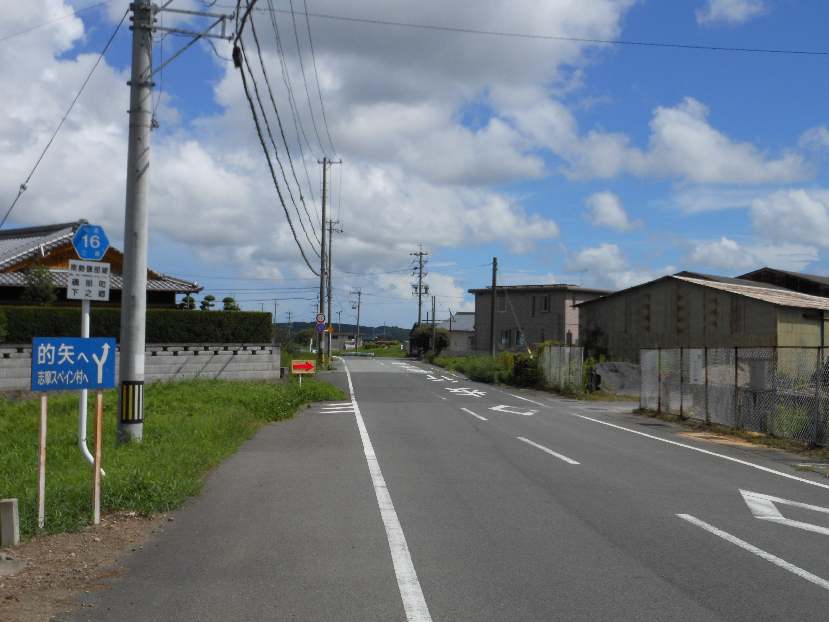 The Mie Prefectural Road Route 16 in Isobecho Shimonogo, Shima City